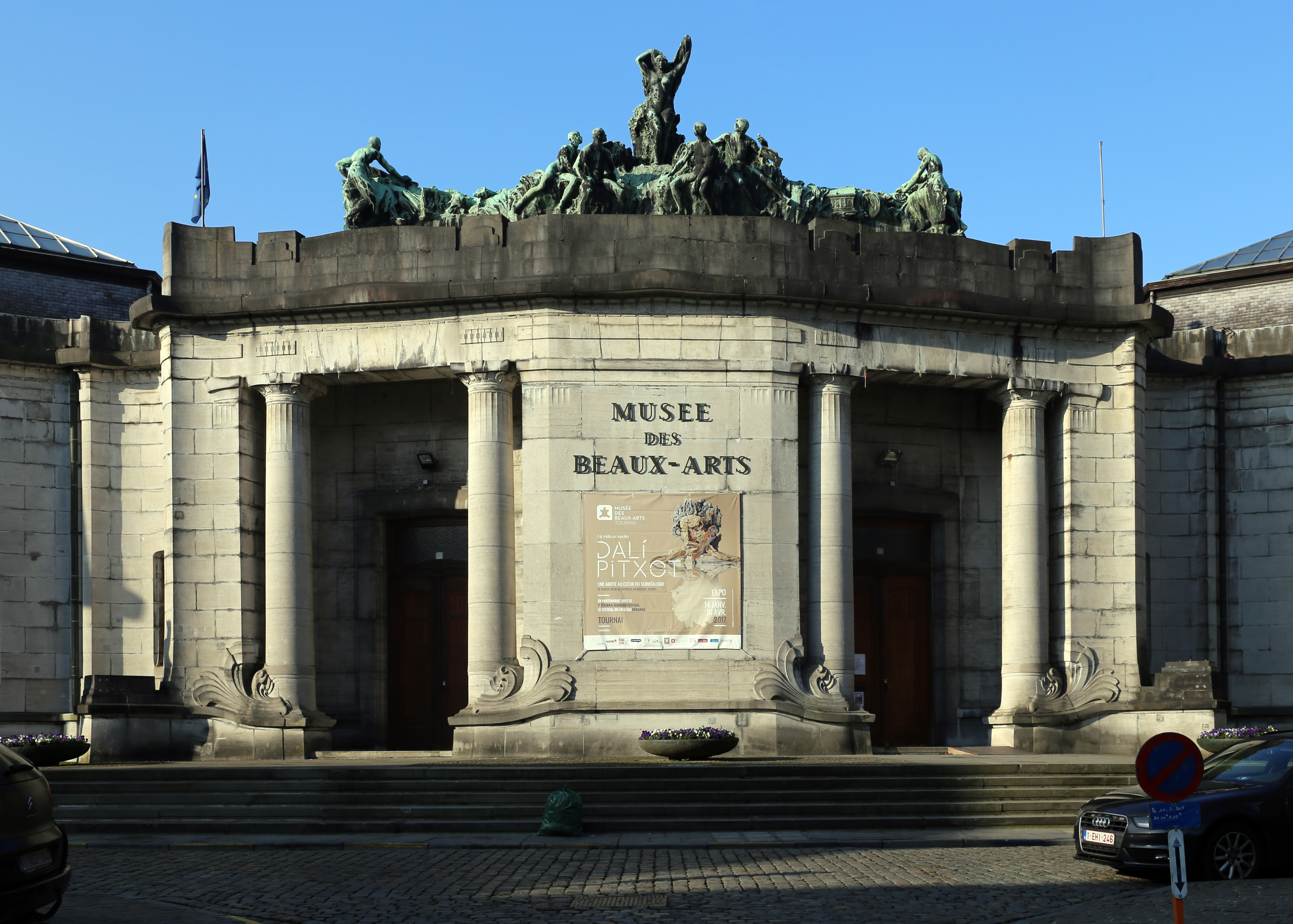 Musée des Beaux-Arts de Tournai